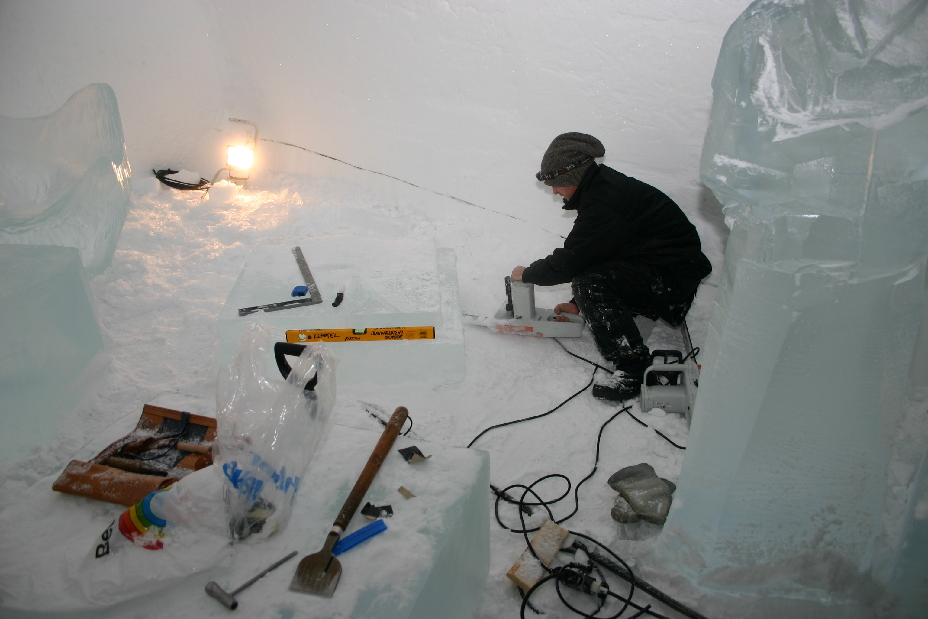 The Ice Hotel in Sweden. The Ice Hotel near the village of Jukkasjärvi, Kiruna, Sweden